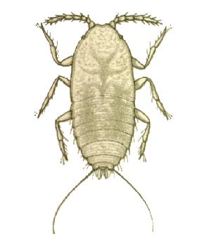 Grass crown mealybug, felted grass coccid. Antonina graminis (Hemiptera: Pseudococcidae)